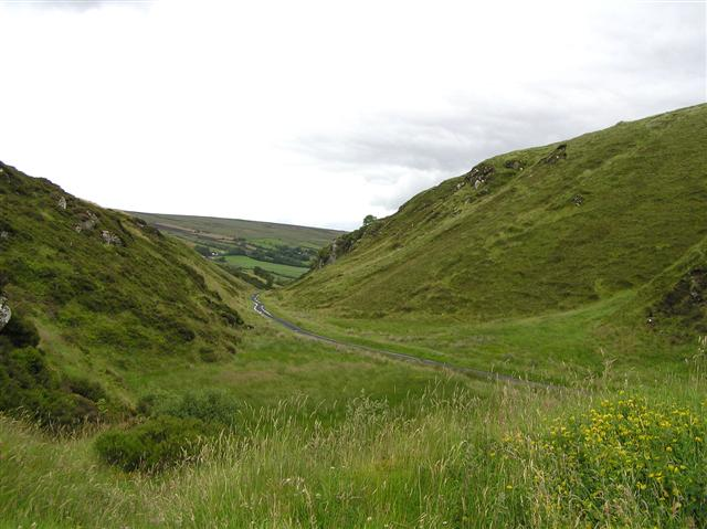 Butterlope Glen. Butterlope Glen like the nearby Barnes gap and Gortin Glen is a glacial spillway cut away by the meltwaters of a large post-glacial lake. The action of the water has here exposed grteenish-coloured shiste, quartzites and limestone, some of the olders geological elements of the Sperrins and Foyle area.